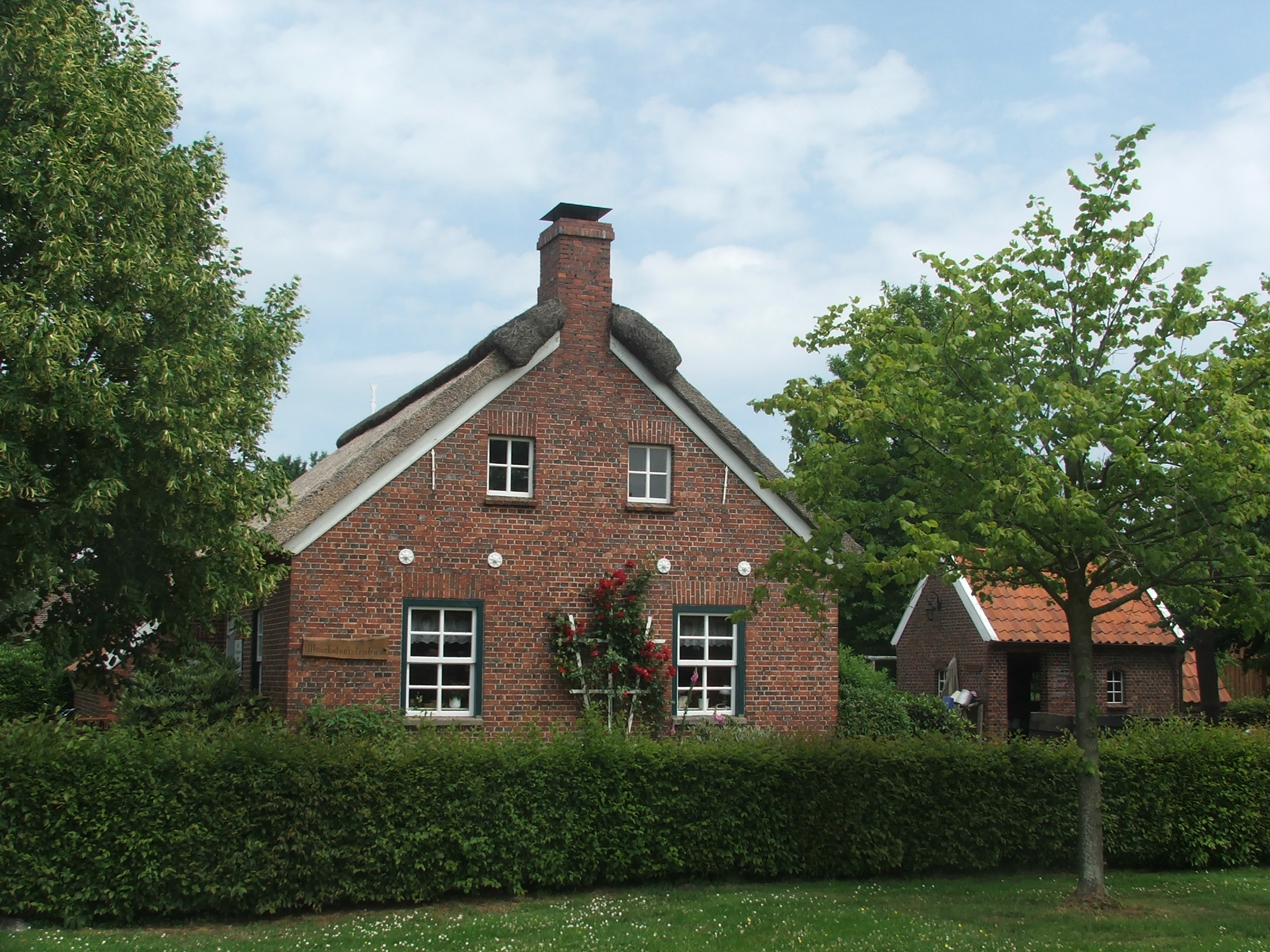 Torf- und Siedlungsmuseum in Wiesmoor, Germany